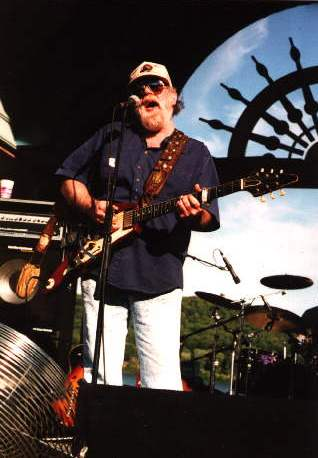 Lonnie Mack in performance with his band in Rising Sun, Indiana in 2003.